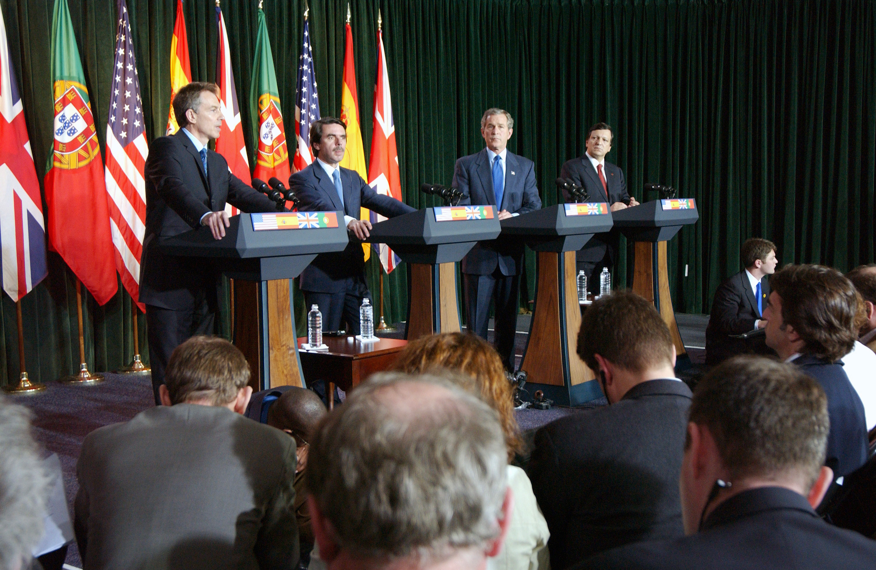 International Leaders conduct a joint press briefing following a one-day emergency summit meeting at Lajes Field, Azores, to discuss the possibilities of war in Iraq. Pictures left-to-right are British Prime Minister Tony Blair, US President George W. Bush and Spanish Prime Minister Jose Maria Aznar, and Portuguese Prime Minister Jose Manuel Durao Barroso.